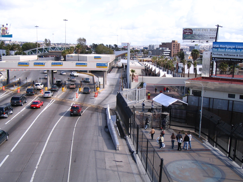 Flickr photo titled "Traffic entering Baja California" in Mexico at San Ysidro, California, USA. Taken on March 19, 2006, by Flickr user serapio. Source:: Author: serapio